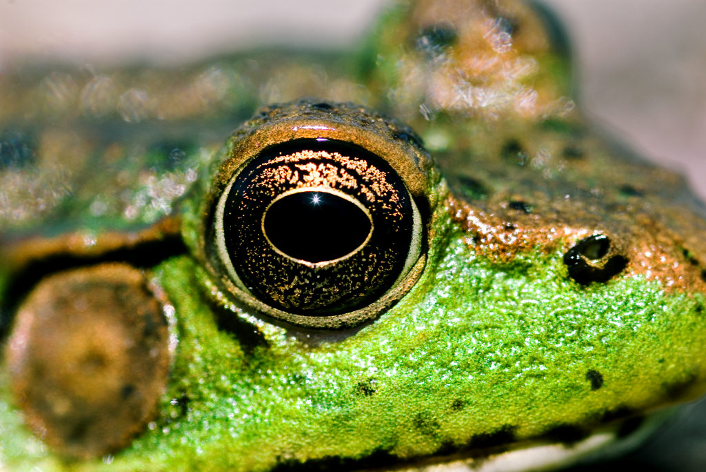 A frog eye in its protruding eye socket, close up.